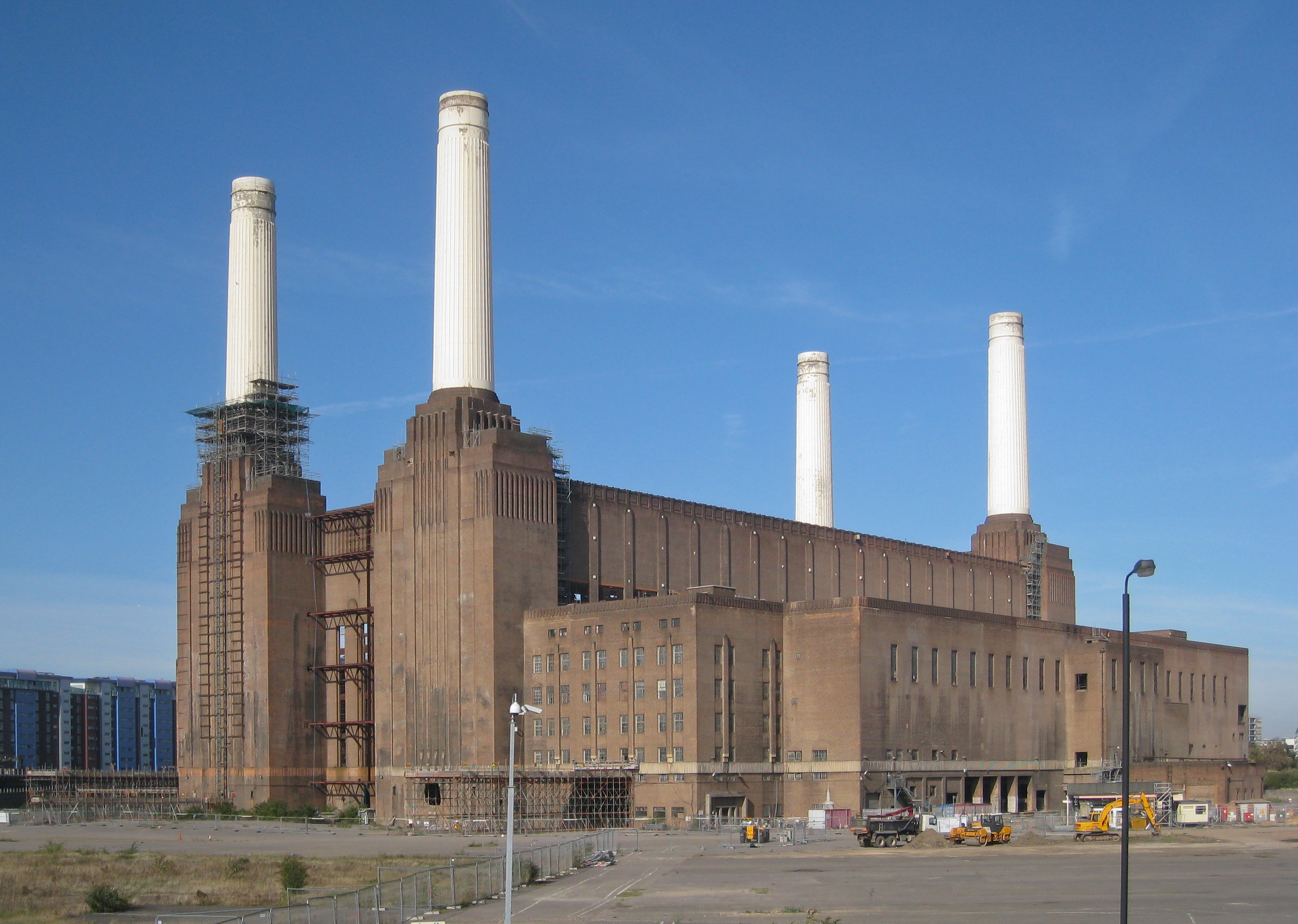 Battersea Power Station is a decommissioned coal-fired power station located on the south bank of the River Thames, in Battersea, South London.